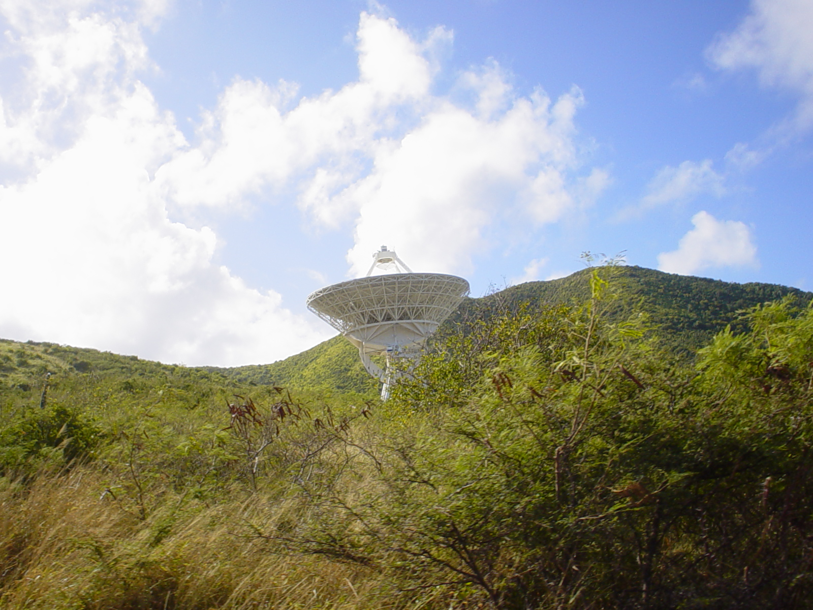 Very Large Baseline Array dish, located on St. Croix, USVI.